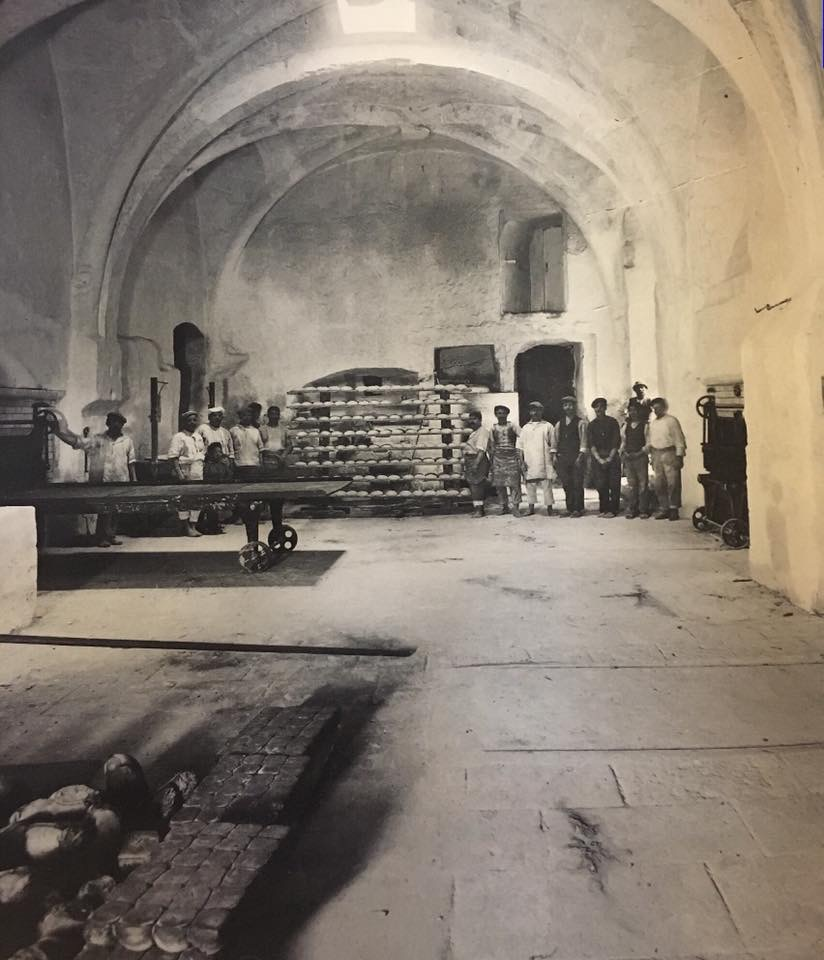 Forni della Signoria